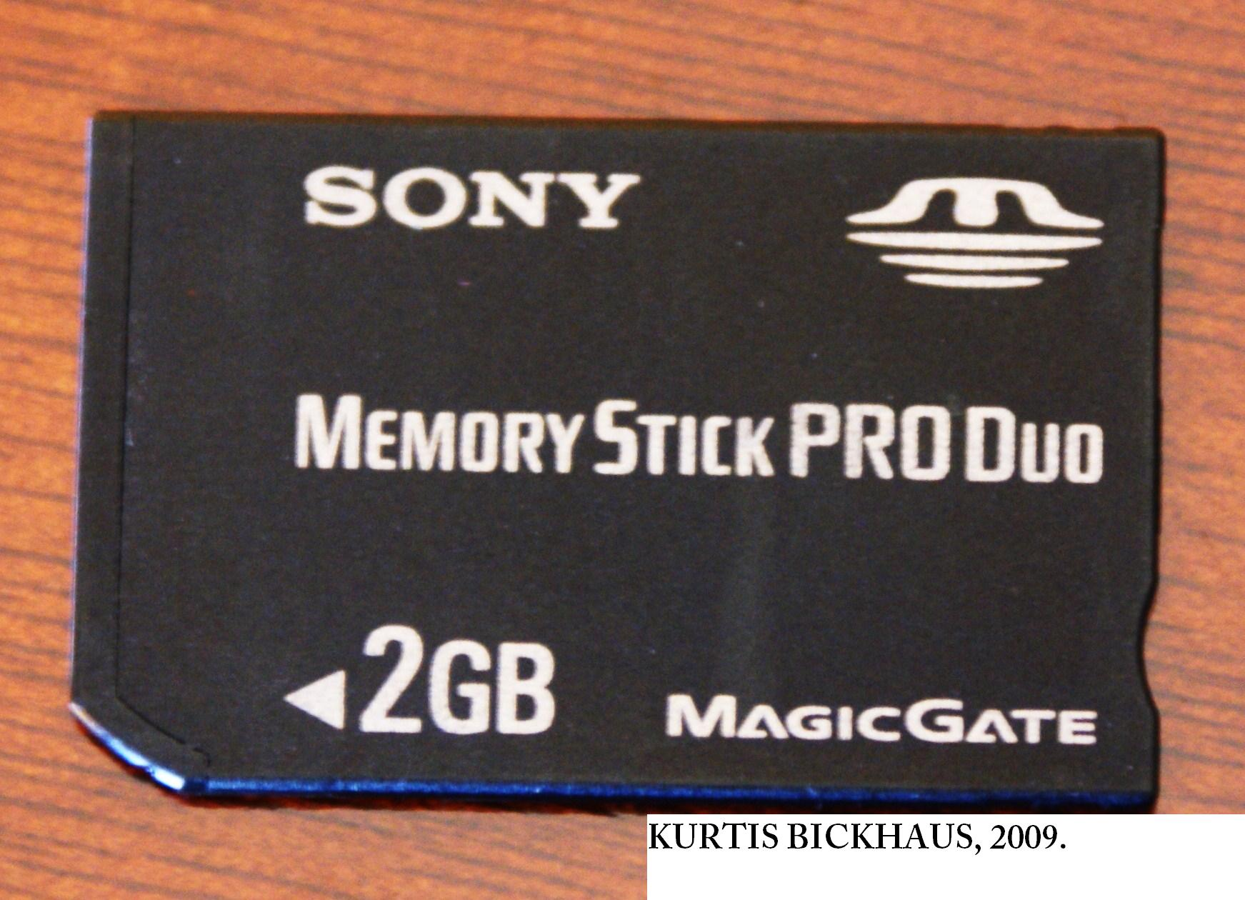 A Sony memory stick pro duo. 2GB.